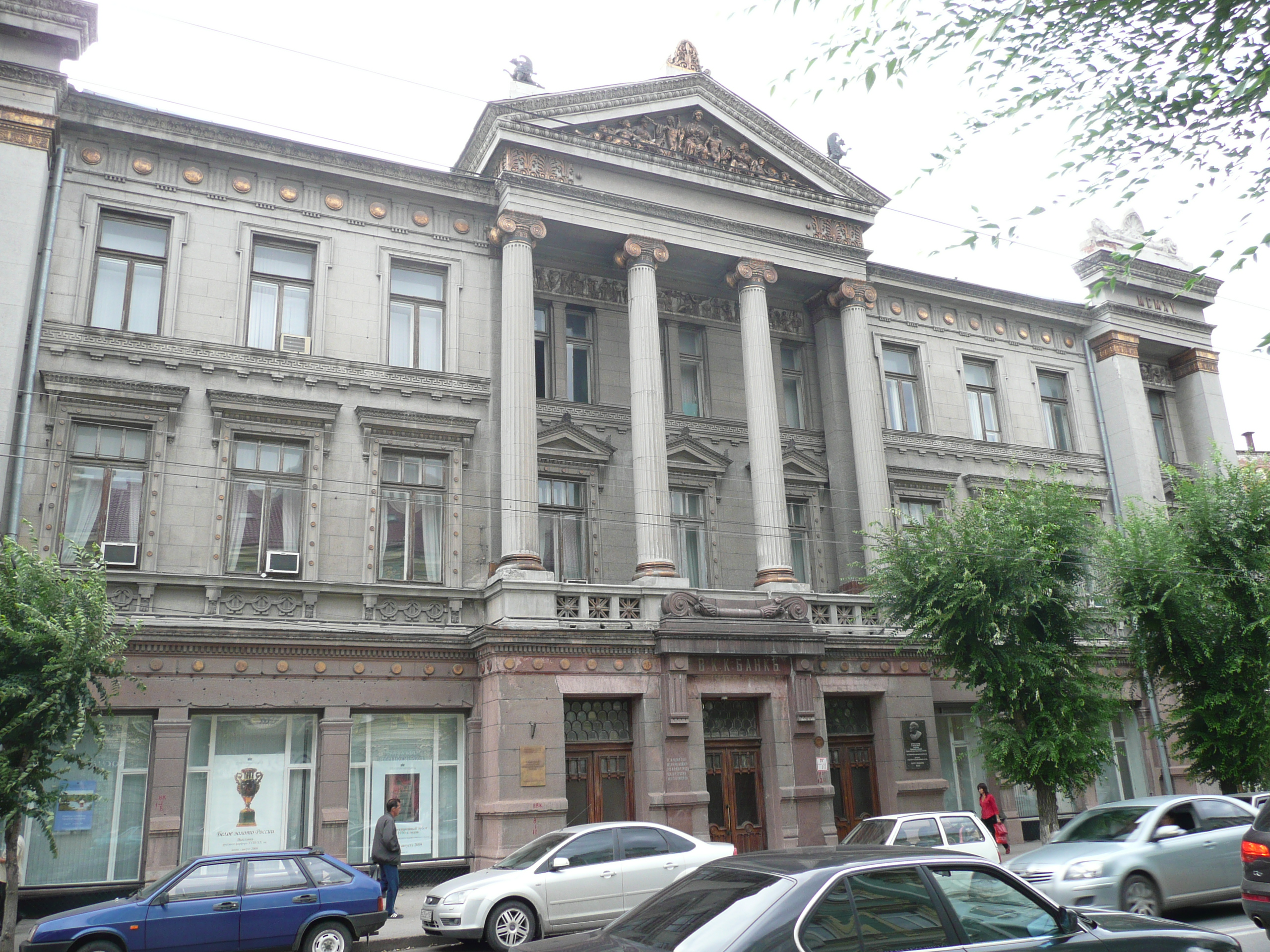 92_Kuybisheva_st_Samara.JPG